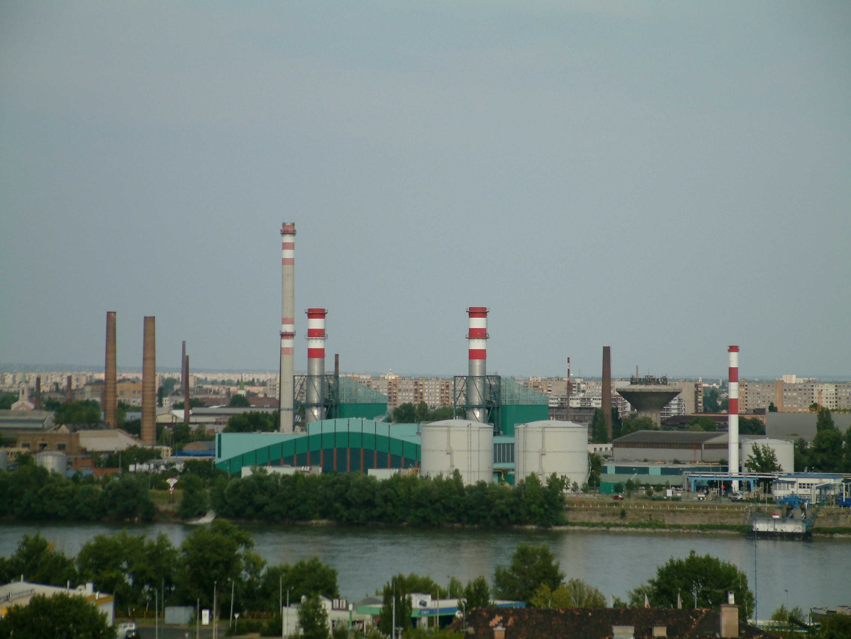 Csepel Works as seen from Budafok